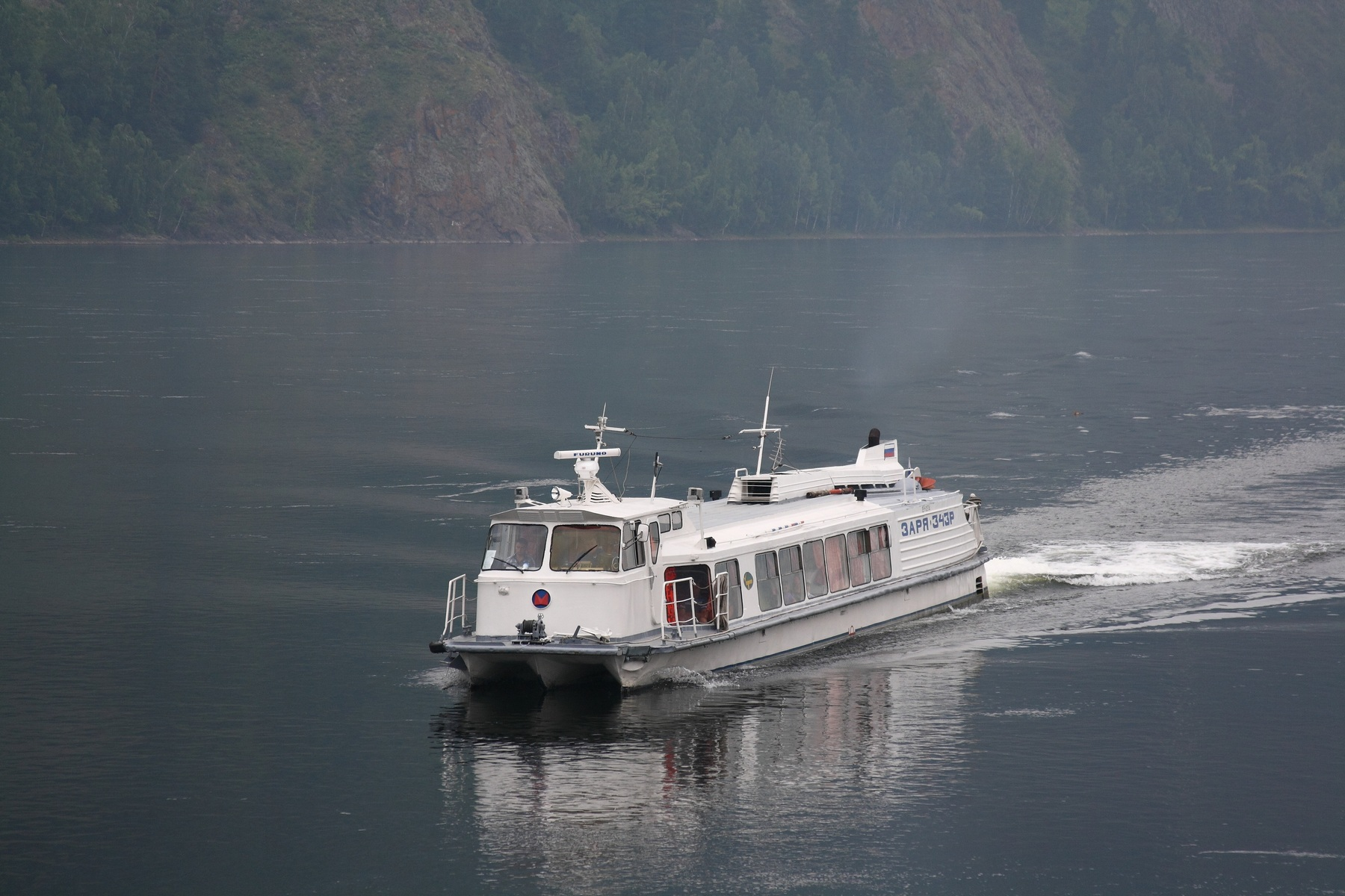 Zarya-343R river ship in Divnogorsk, Krasnoyarsk krai, Russia